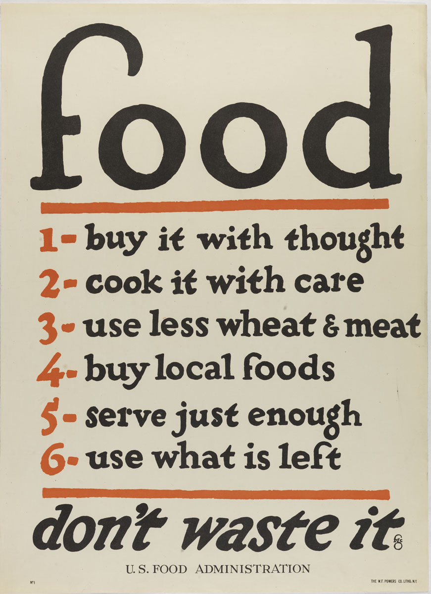 World War I-era poster detailing the U.S. Food Administration's campaign to have American citizens voluntarily restrict their consumption of food. Accession Number: P.2284.53